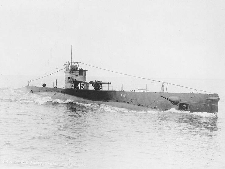 United States Navy submarine making on sea trials off Groton, Connecticut.